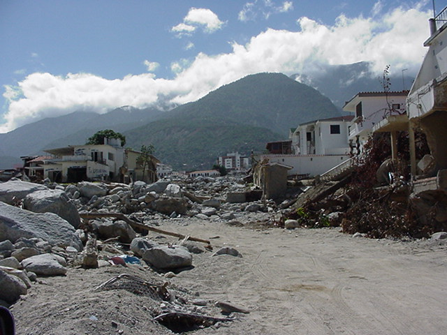 Los Corales, a 75% destroyed neighborhood.